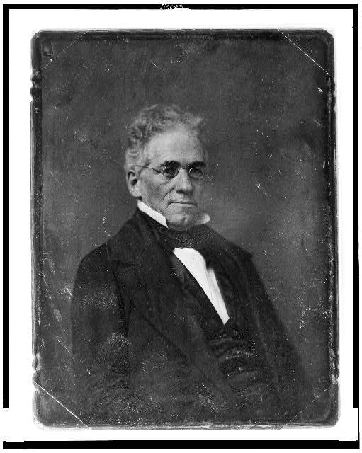 This work is in the public domain, Credit to Library of Congress, Prints & Photographs Division